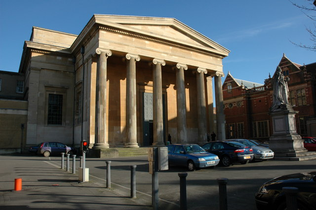 The Shire Hall, Foregate Street, Worcester. The Shire Hall was built in 1834-35 in a Greek Revival design, the architects were Henry Rowe and Charles Day. The building serves as Worcester's Crown and County Court. The building underwent major restoration in the 1990s.